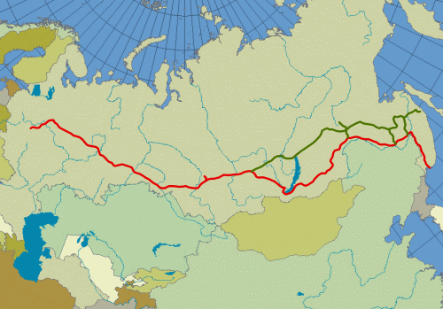 Map of the Trans-Siberian railway Quelle: selbst erstellt